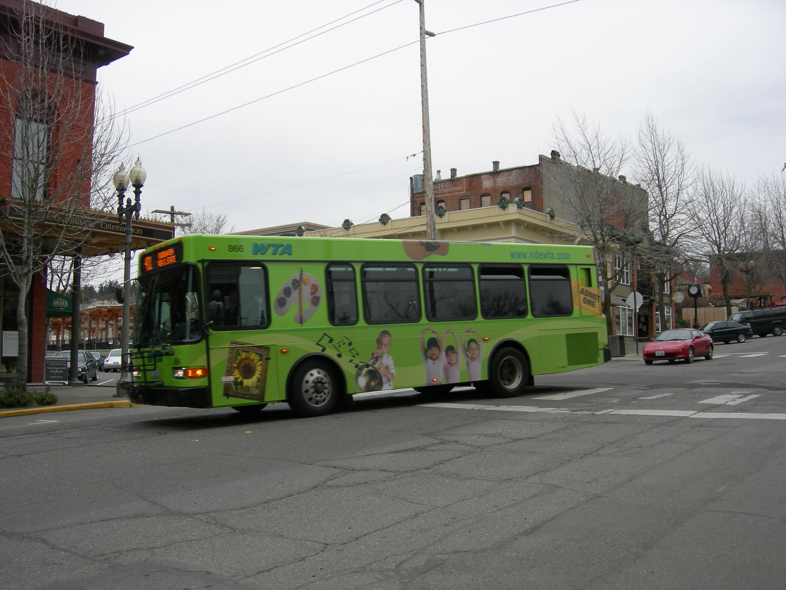 Whatcom Transit Bus, Bellingham, Washington